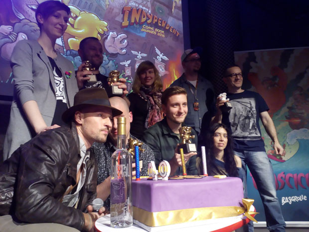 Winners of the Golden Chicken (Zloty Kurczak) Award 2016